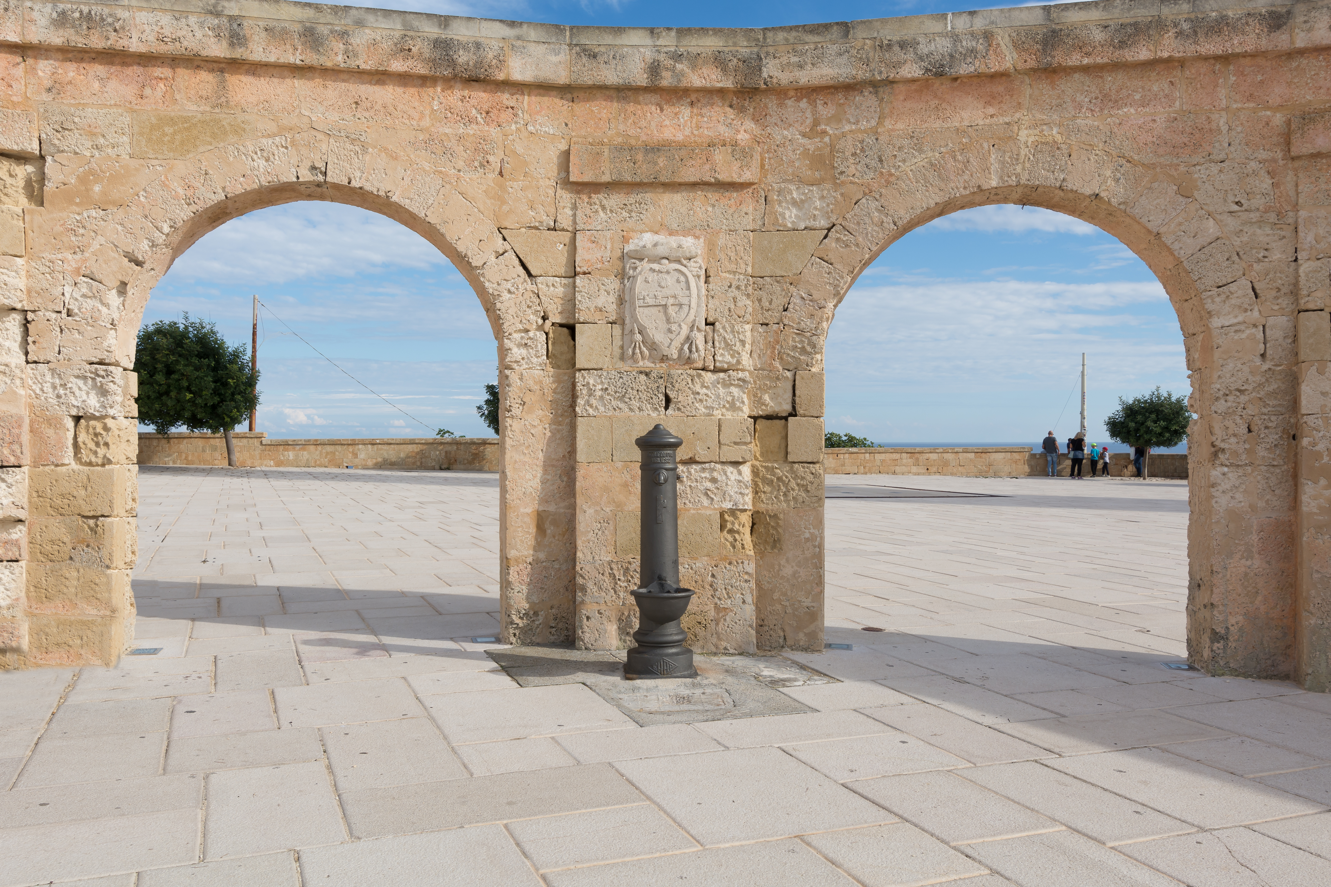 The southernmost fountain of the Apulian Aqueduct in Santa Maria de Leuca.